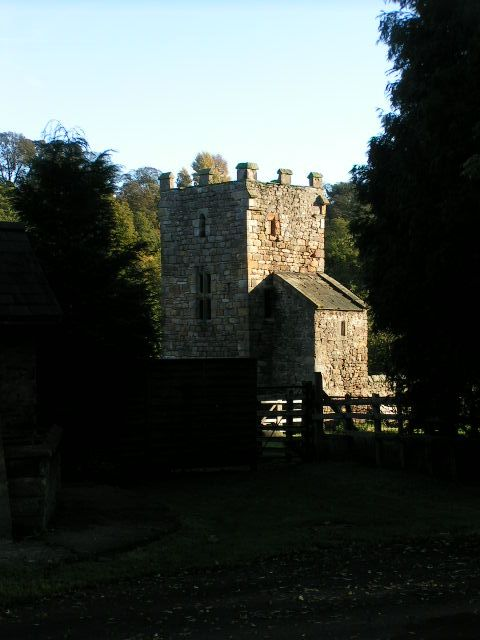 St. Martin's Priory, Richmond This attractive little building by the main road from Richmond to Catterick Garrison is a 15th-century gateway tower of St. Martin's Priory (the crenellations were added in the 19th century). for more information.